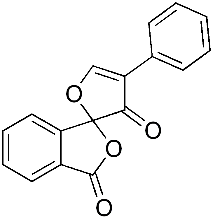 chemical structure of fluorescamine